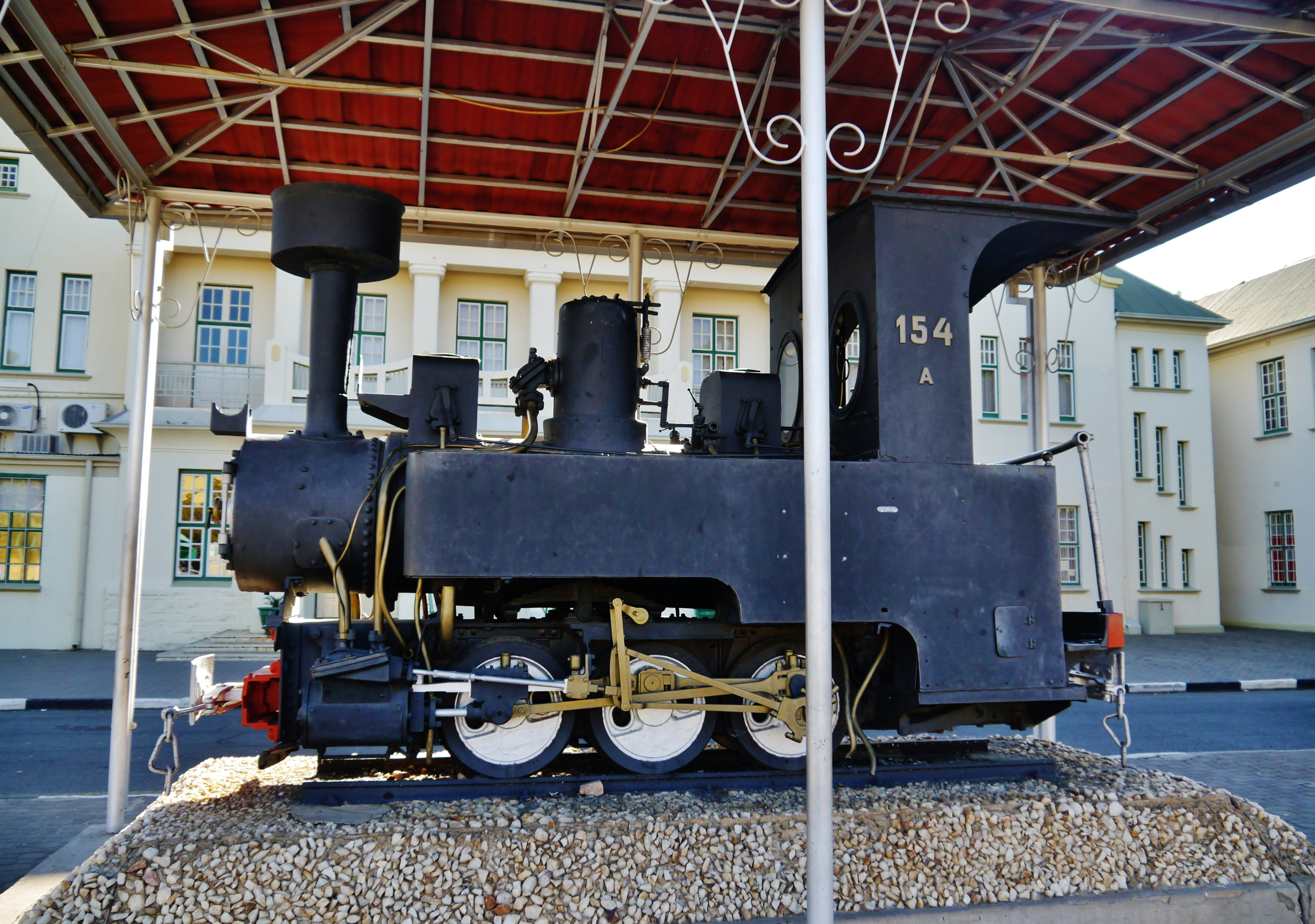 Train Station Museum, Windhoek, Region of Khomas, Namibia